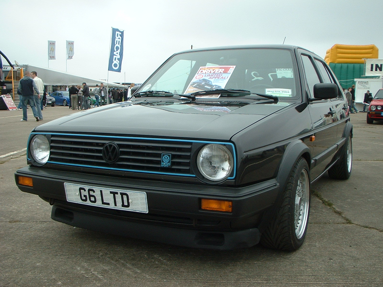 Volkswagen Golf Mk2 G60 Limited, Photograph taken by Wikipedia member at "GTi International" show (UK) 2004, Car is not member's own.